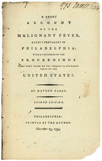 A picture of the front cover of the pamplet